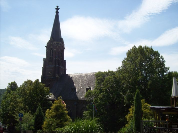 "Haardter Kirche", Church in Siegen-Weidenau, Germany